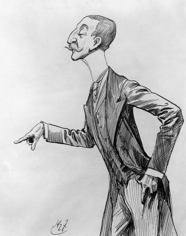 Picture of Lewis Harcourt, 1st Viscount Harcourt